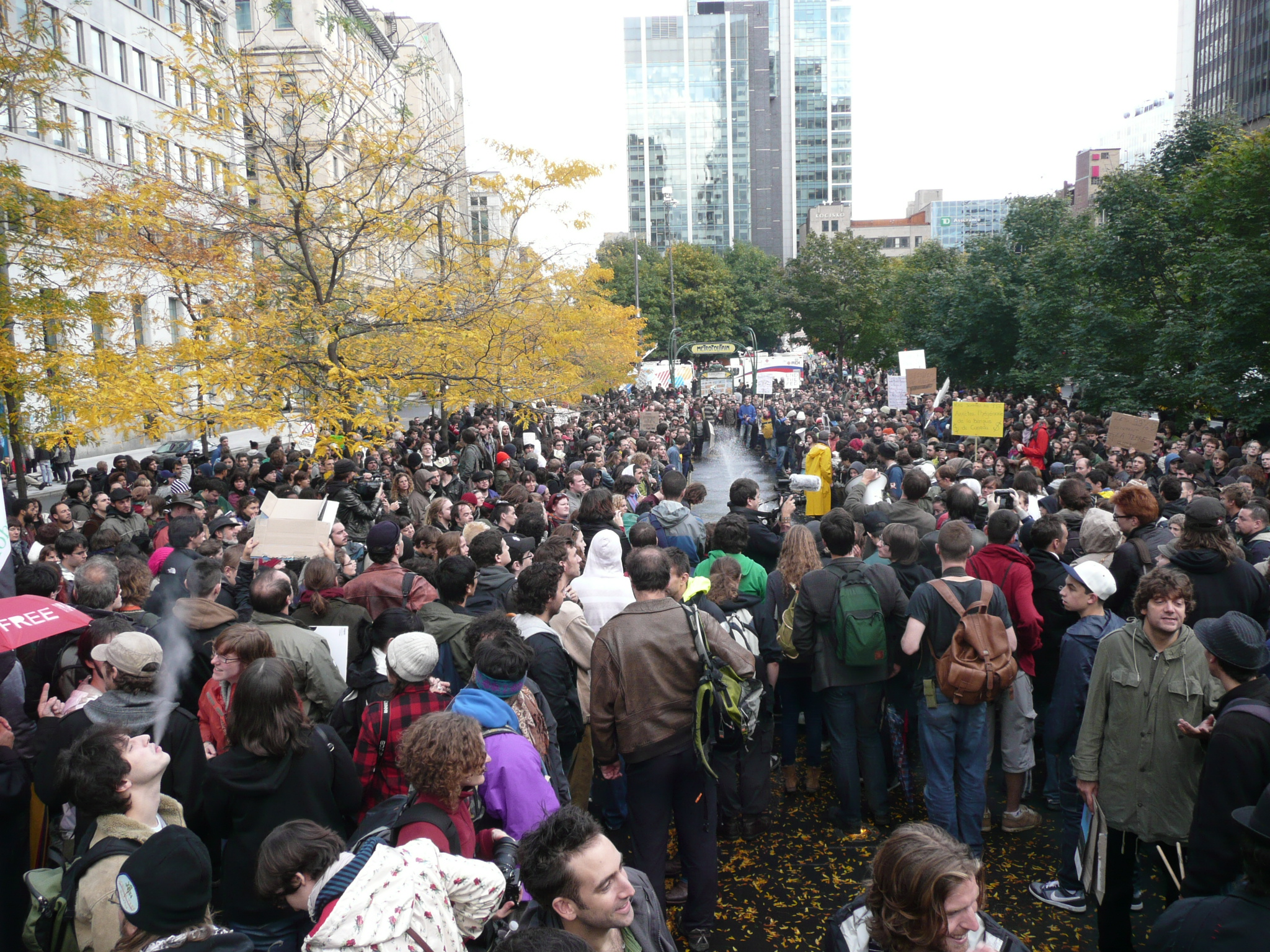 Occupy Montreal on Saturday, October 15, a Global Day of Action for the Occupy Together movement. Over 1,000 people convened at Victoria Square to take part in the peaceful democratic expression.